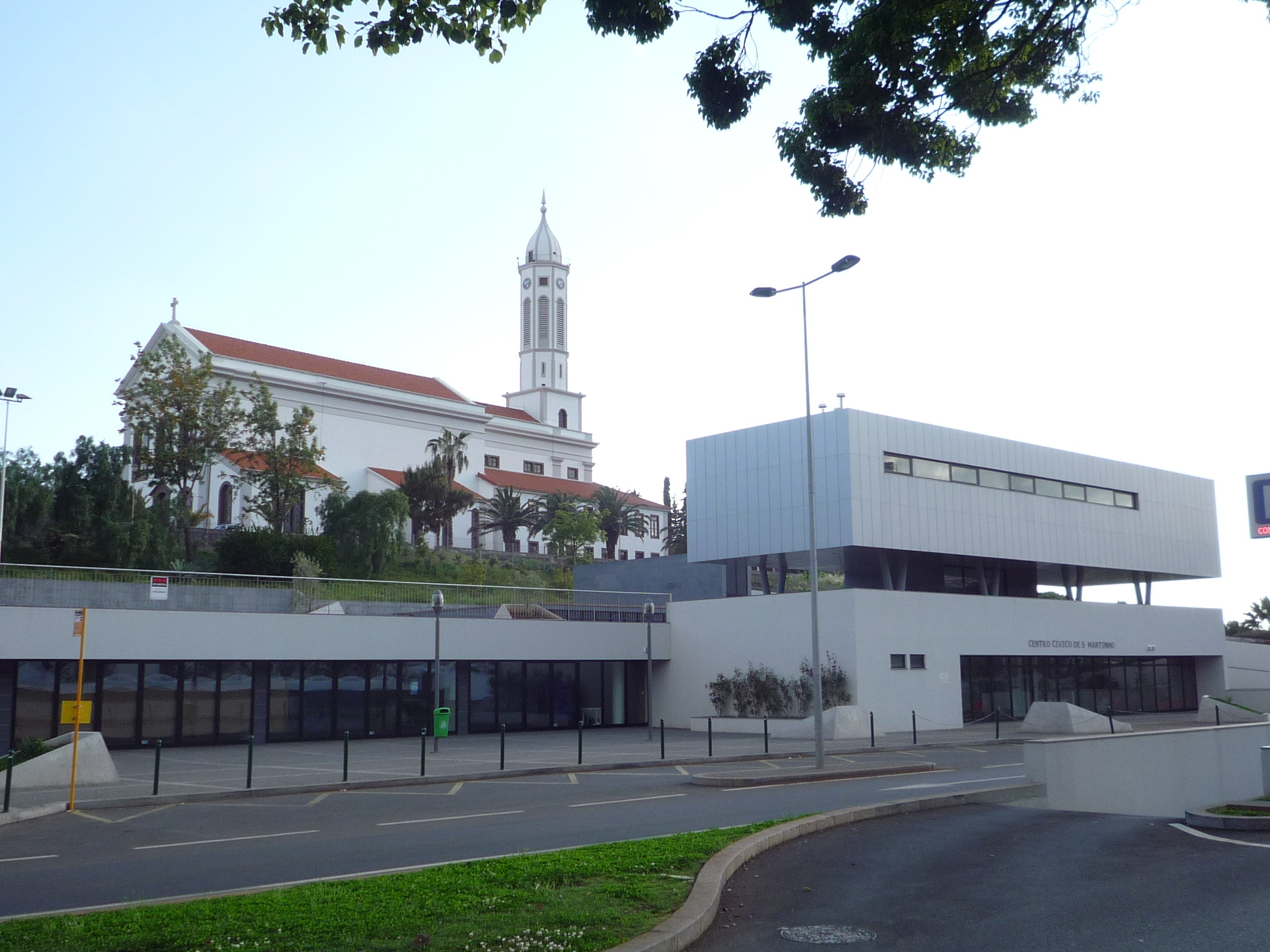 The Centro Cívico de São Martinho at 32°39′00″N 16°56′36″W / 32.6500°N -16.9432°E in São Martinho, Funchal, Madeira. The modern Church of St Martin is in the background. Rotate to your left by about 150° at this point and you will see the old Church of St Martin.